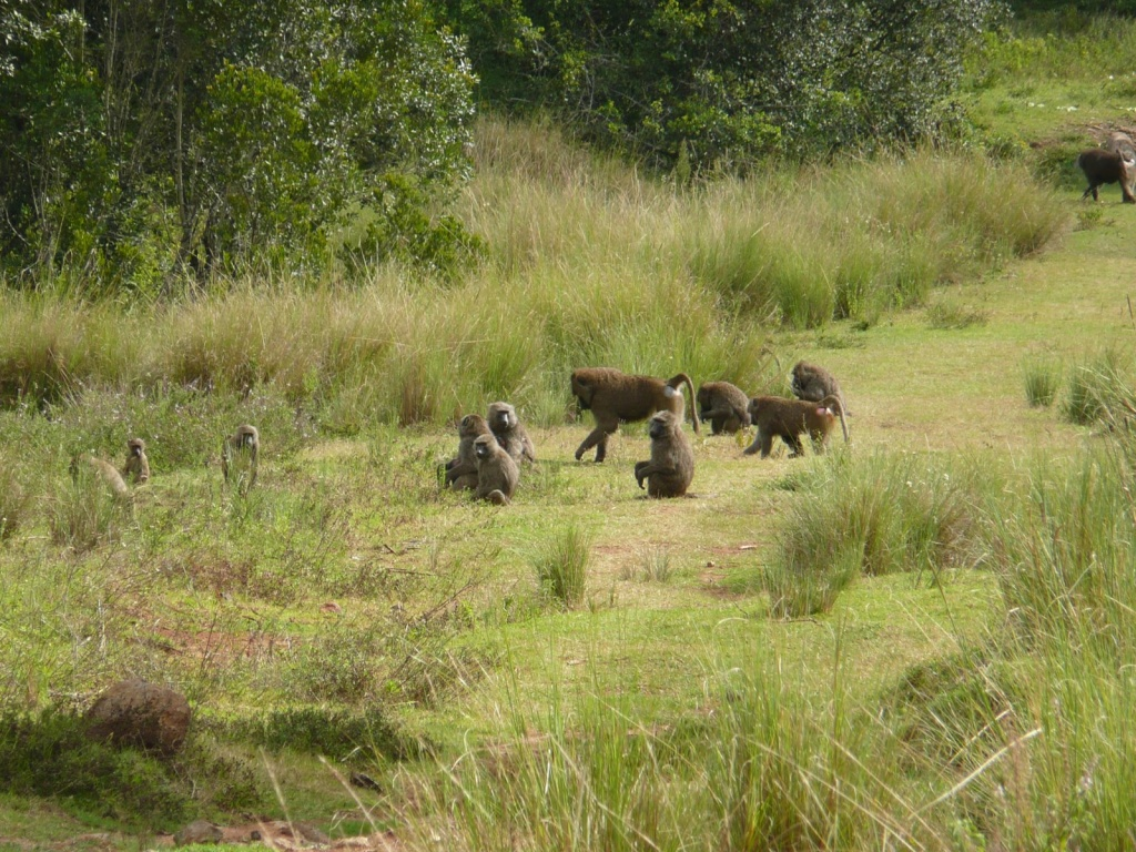 Baboons, Kenya (2007)